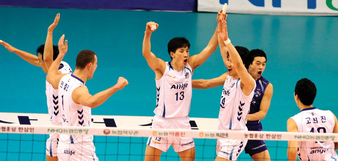 Samsung Fire & Marine Insurance Bluefangs Volleyball Club